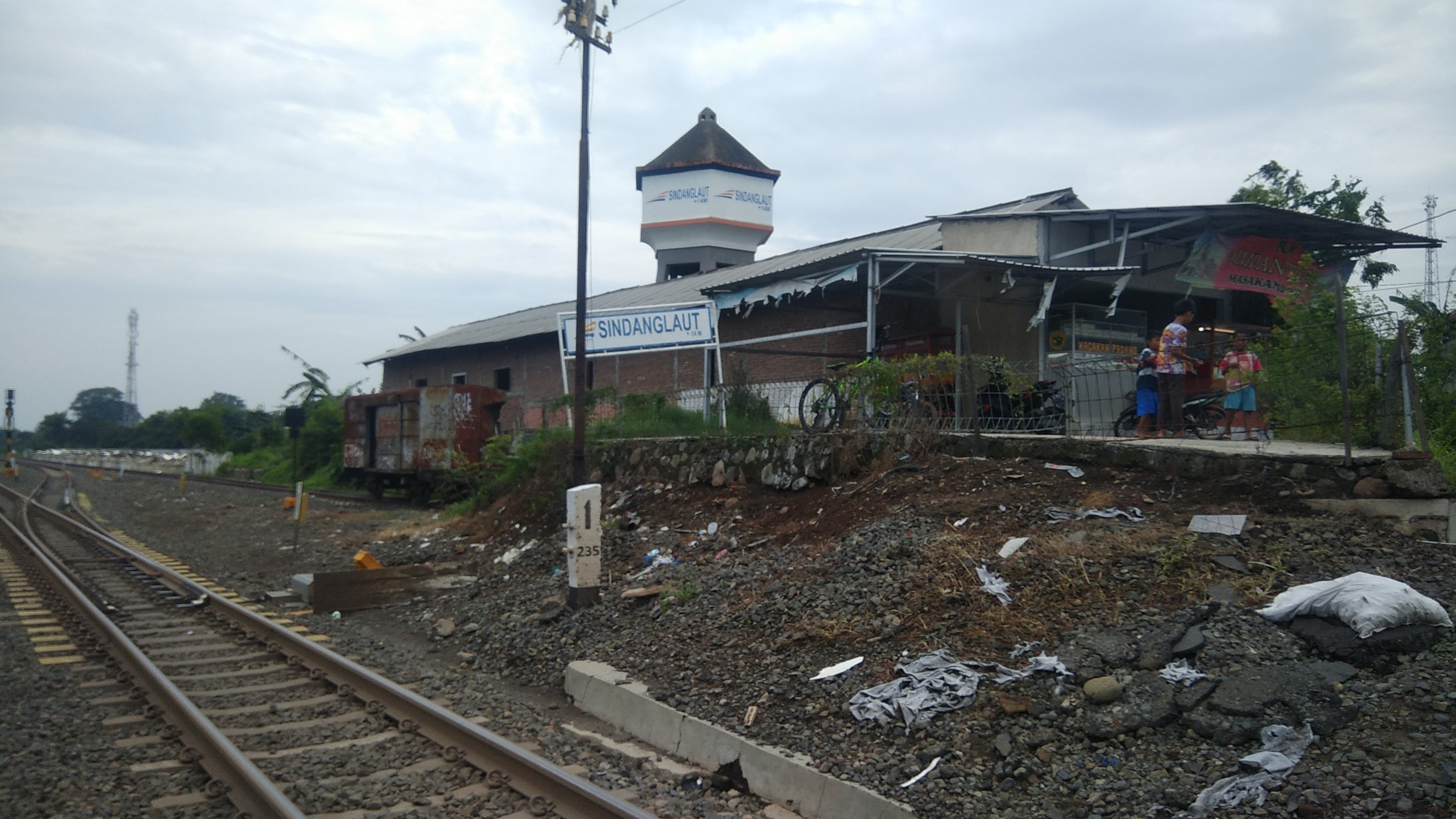 Sindanglaut railway station Jawa: ꦱꦼꦠꦱꦶꦪꦸꦤ꧀ ꦱꦶꦤ꧀ꦢꦁꦭꦮꦸꦠ꧀